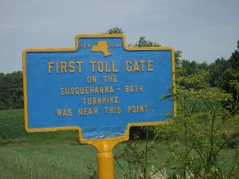 Historic marker of the first toll gate on the Susquehanna-Bath Turnpike, was near this point.